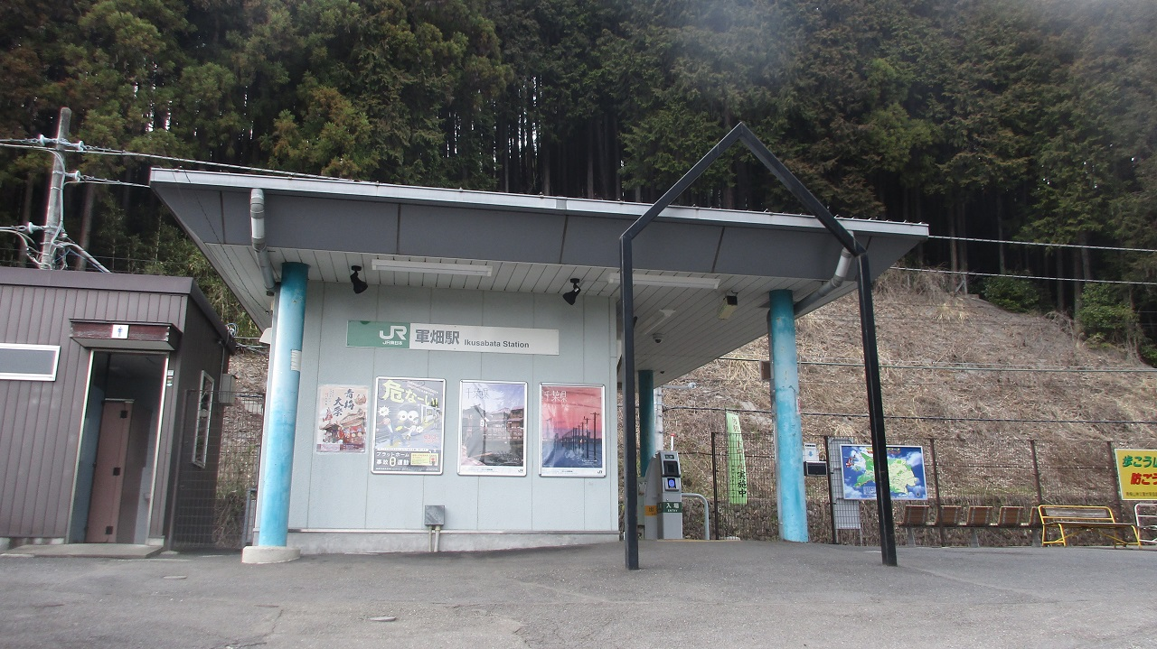 JR青梅線 軍畑駅